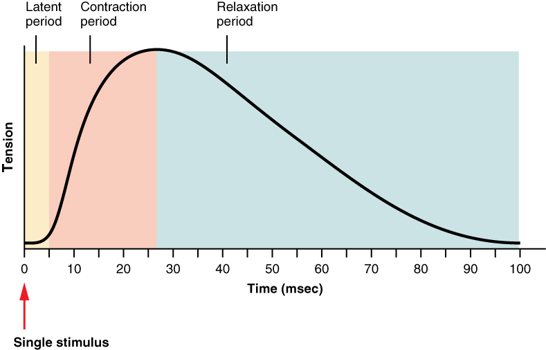 Version 8.25 from the Textbook OpenStax Anatomy and Physiology Published May 18, 2016